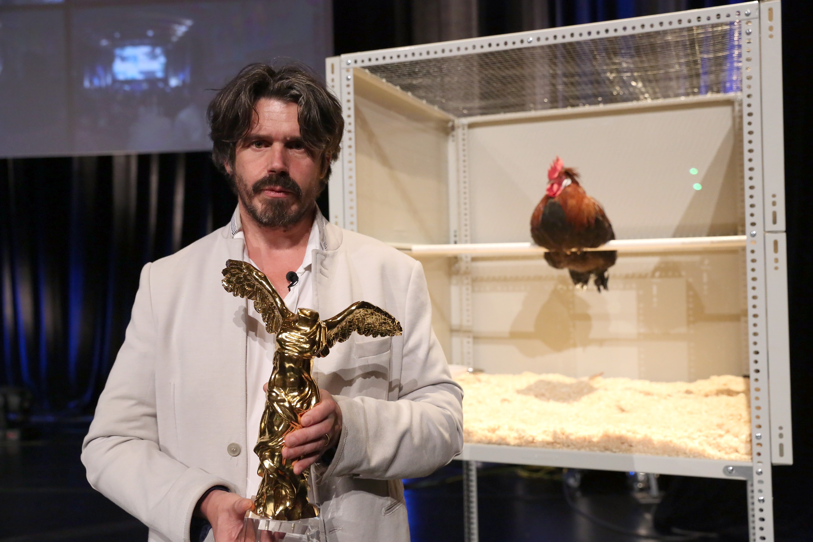 Koen Vanmechelen ("The Cosmopolitan Chicken Project") with the Golden Nica of the Prix Ars Electronica 2013 in the category Hybrid Art; Brucknerhaus, Linz, Upper Austria.